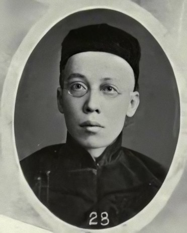 Lo Cheung-shiu (1867–1934) was a prominent Hong Kong businessman and the founder of the Lo family, an influential family in Hong Kong